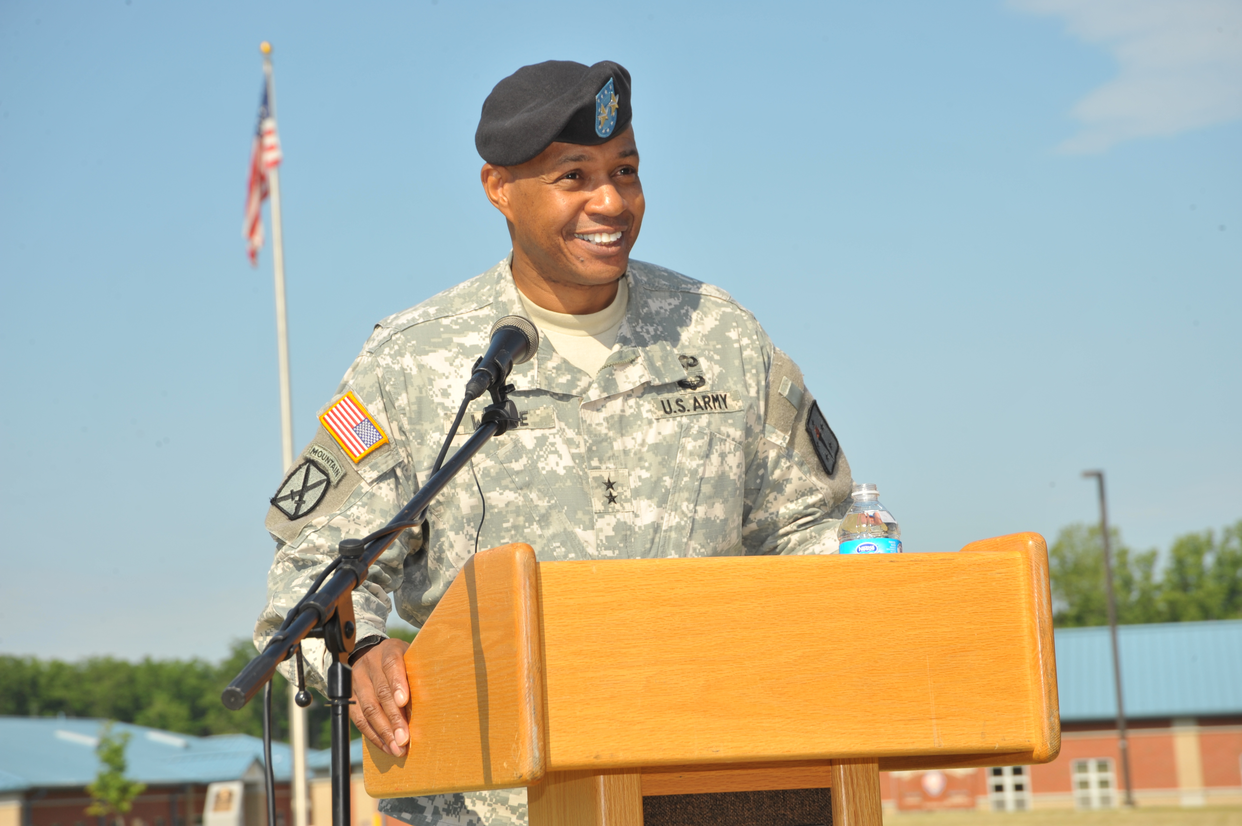 Larry Wyche